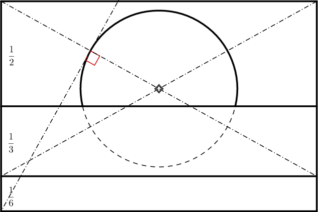 An image with all the infos for the geometrical construction of Palmyra Island flag.